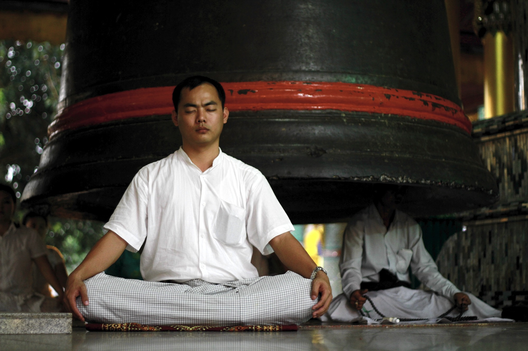 A man meditates in front of a giant bell at Shwedagon Pagoda in Yangon, Myanmar on 27 April 2012.